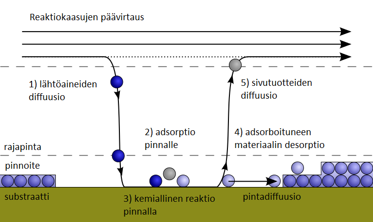 The general principle behind basic CVD.